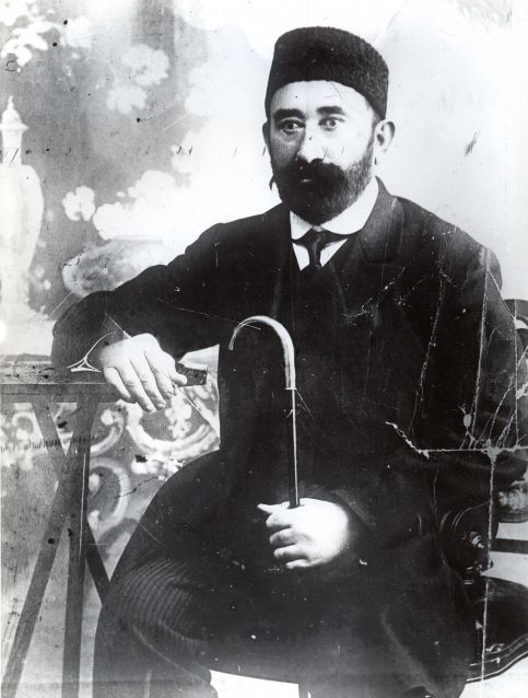 Musa Naghiyev Watermark from image: Fotobank